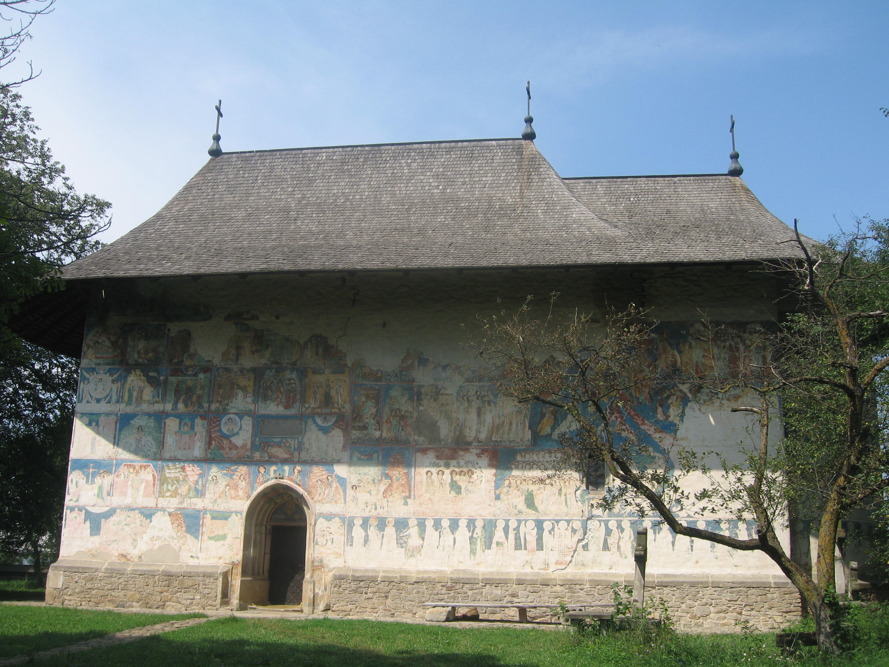 Arbore Monastery 01